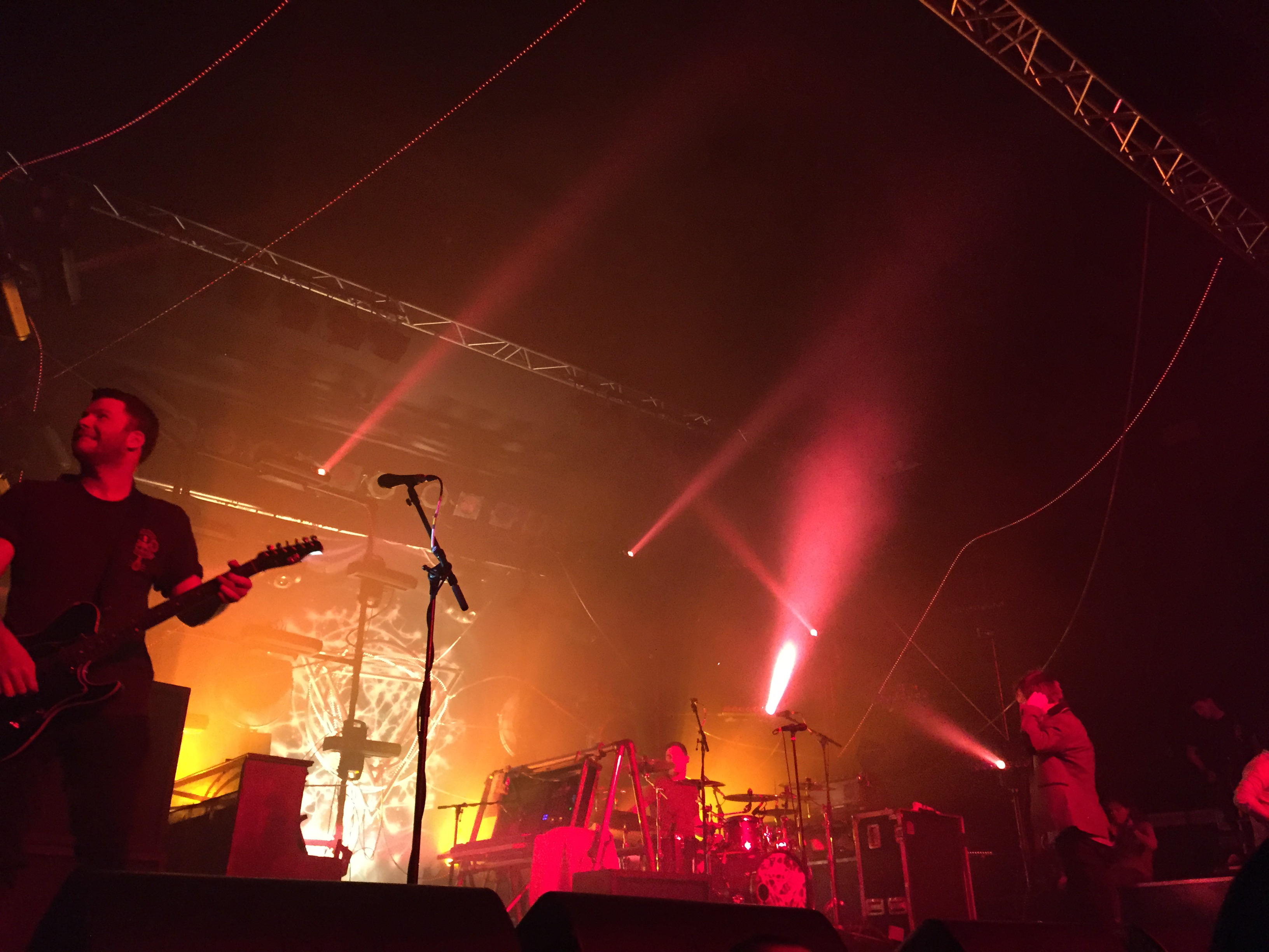 British band Enter Shikari live in 2015, Hamburg